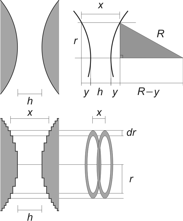 Scheme 2 for Derjaguin Approximation Article